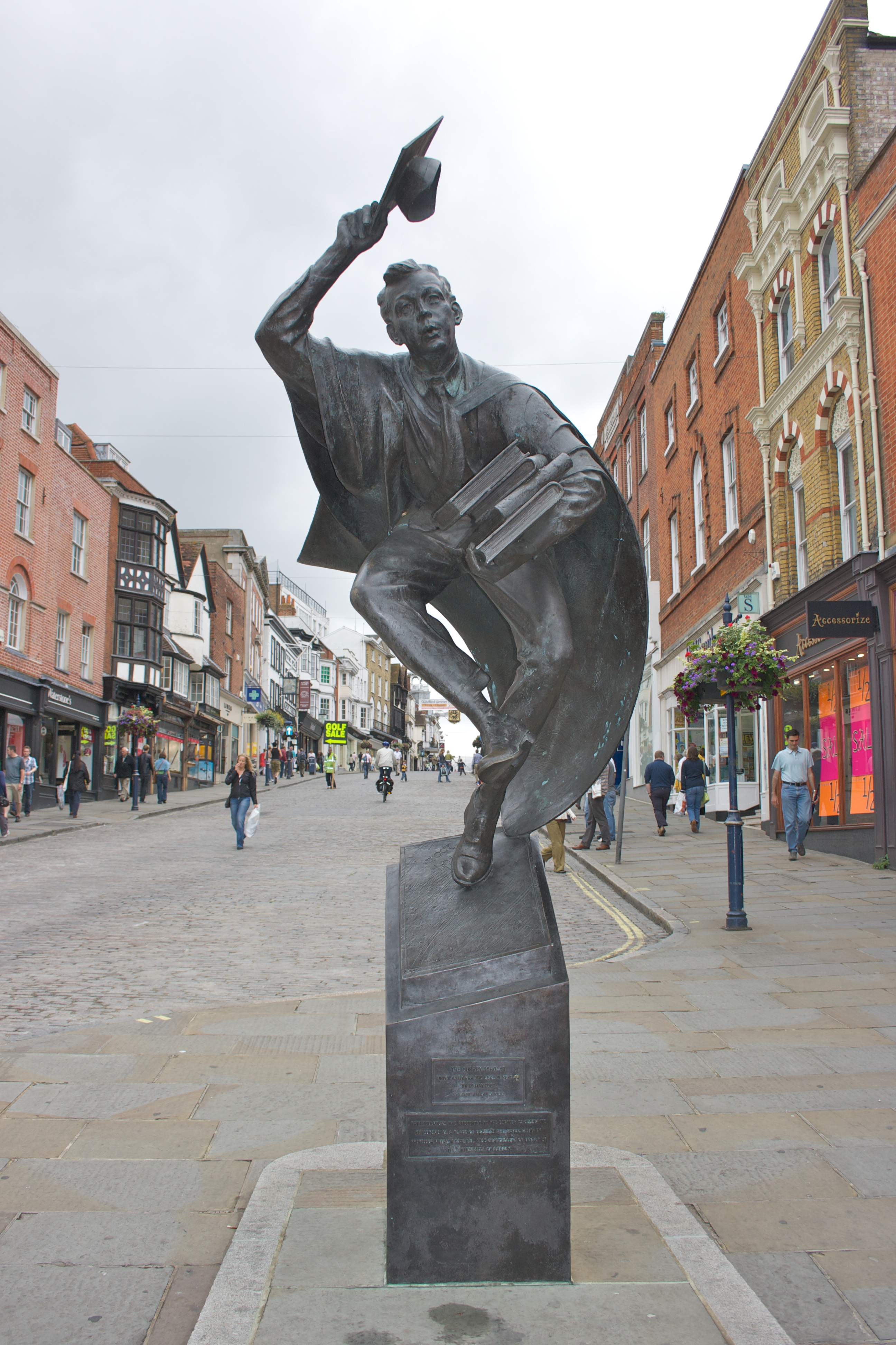 The Surrey Scholar statue in Guildford, Surrey.